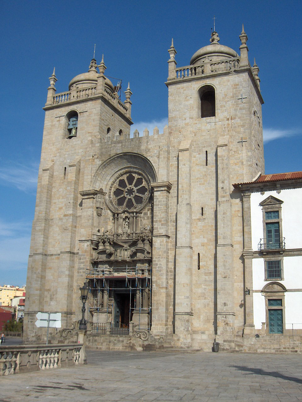 cathedral of Porto, Portugal